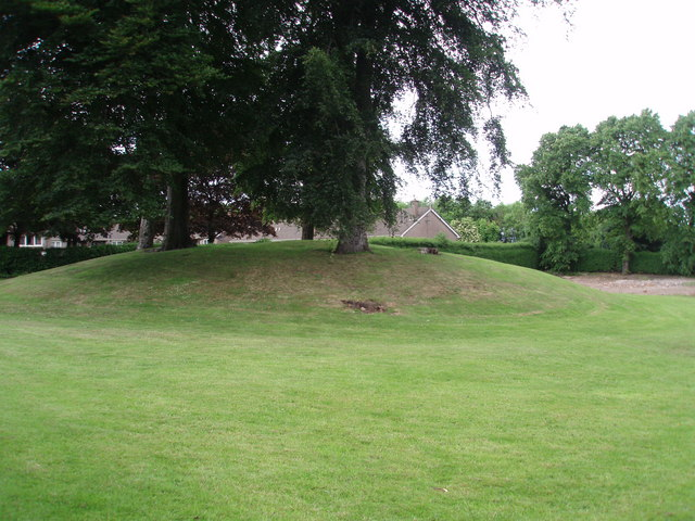 Rutherglen Main Street Tumulus Grass-covered tumulus burial site (grave mound), believed to be Roman. Located on part of what was the garden of the former 18th century Gallowflat house (now demolished).